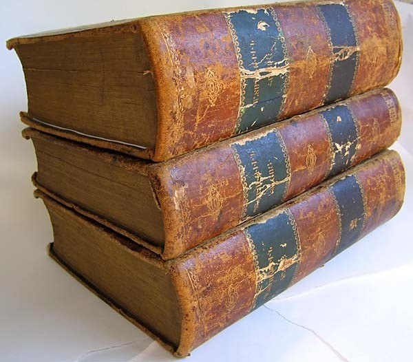 Mikayel Chamchian, Armenian history from the beginning of the world to the year 1784